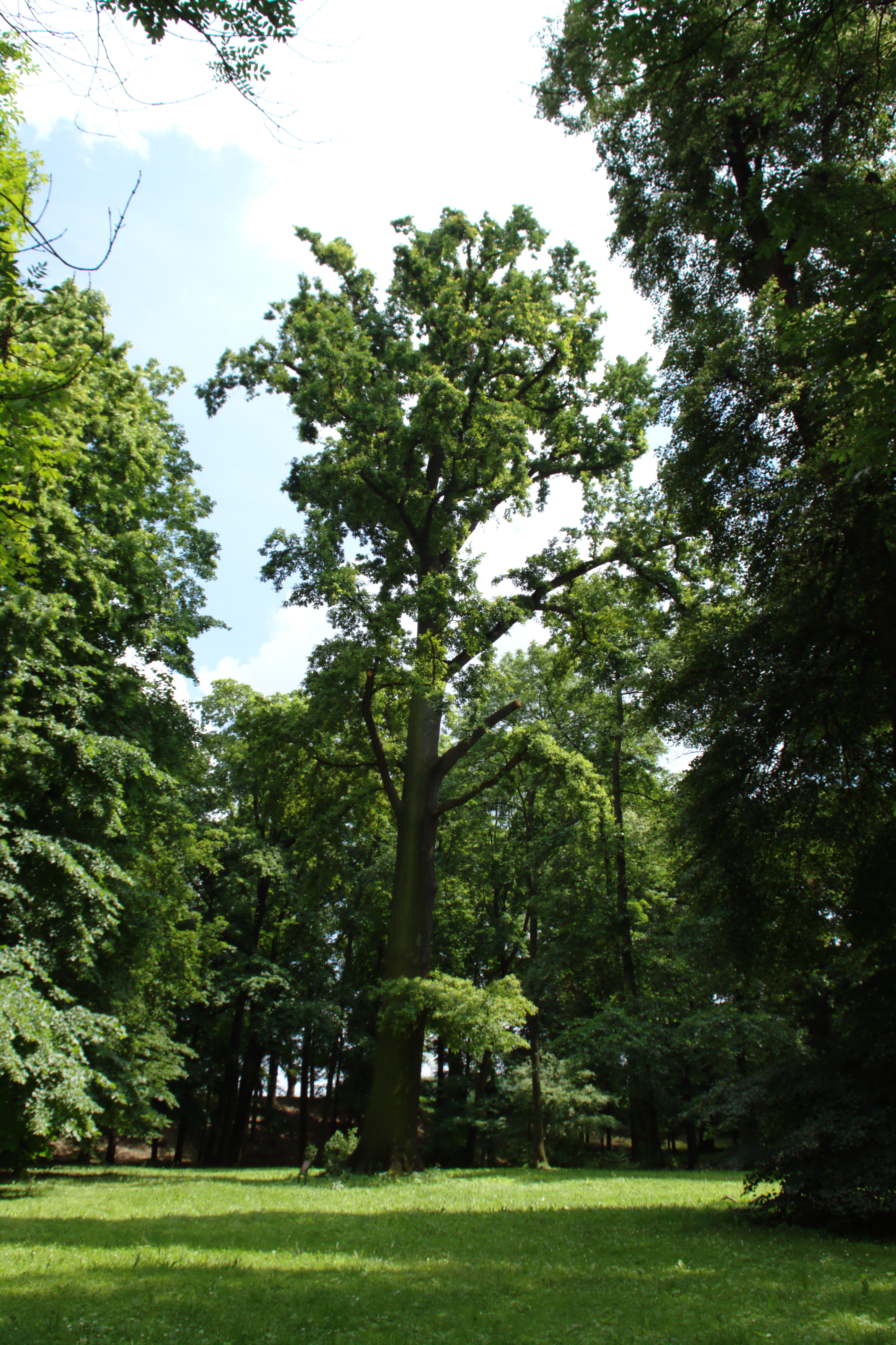 A famous tree in Dolní Počernice, Prague, CZ